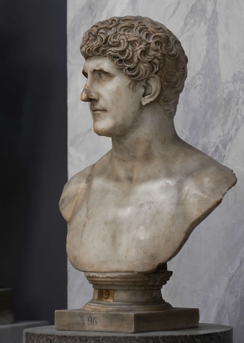 Roman male portrait bust of Marcus Antonius. Fine-grained yellowish marble. Flavian age (69—96 A.D.). Rome, Vatican Museums, Chiaramonti Museum. Height: 68 cm. Found near Tor Sapienza before Porta Maggiore in 1830 or 1831.